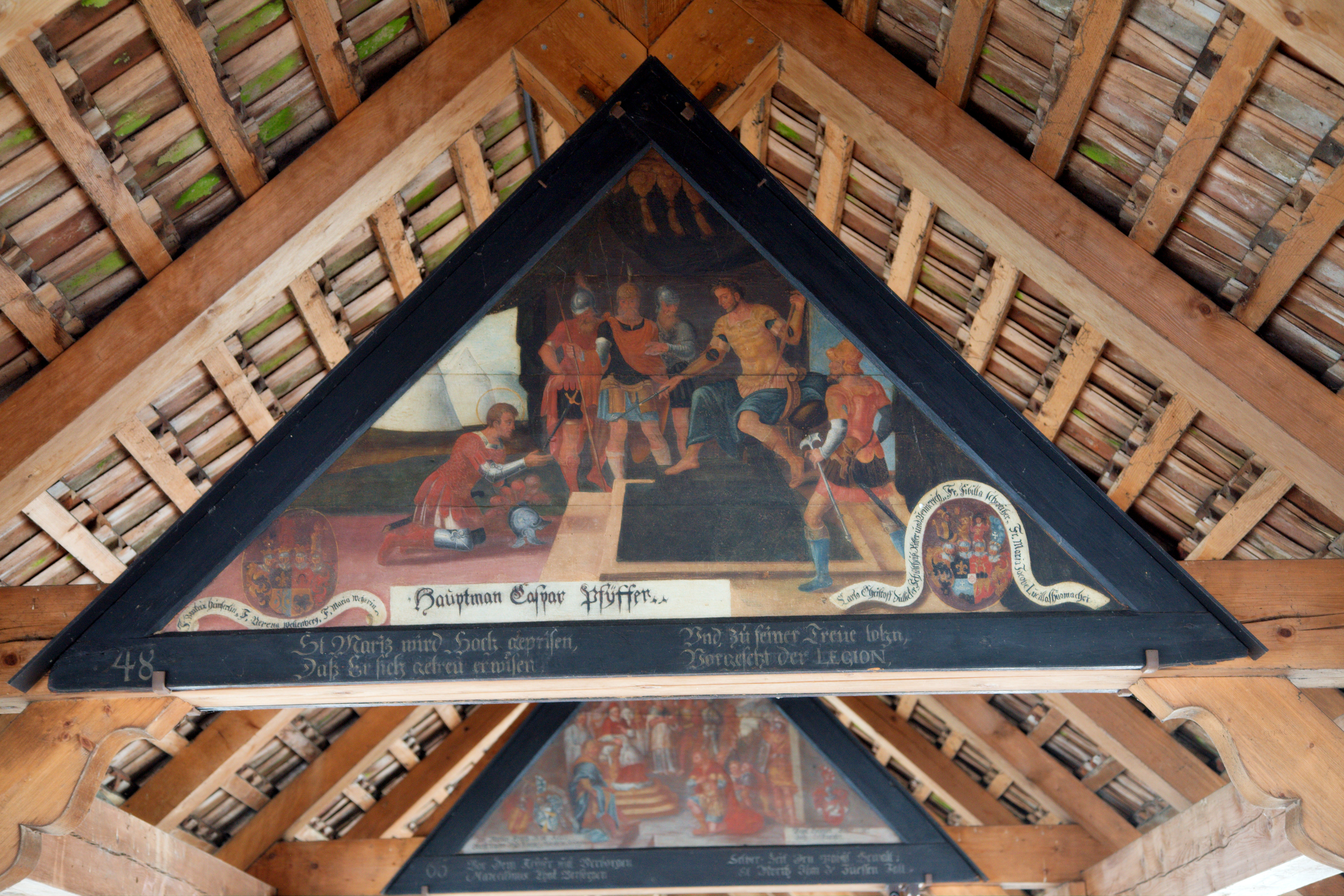 Painting inside Kapellbrücke, Lucerne